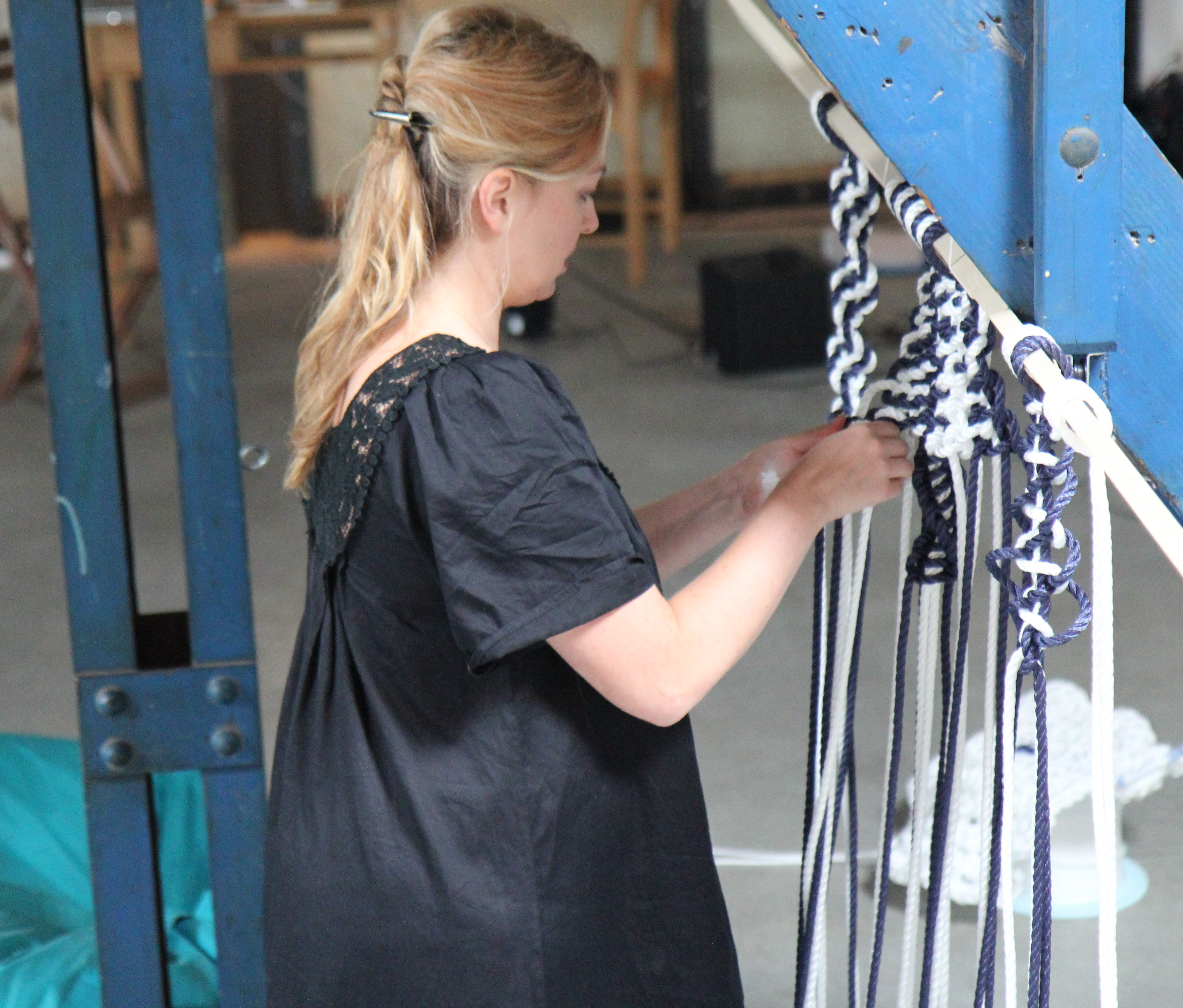 A large macrame project in progress, using rope as cord